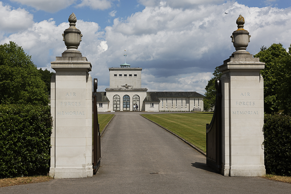 Air Forces Memorial Runnymede Entrance Gates & Monument Front Aspect